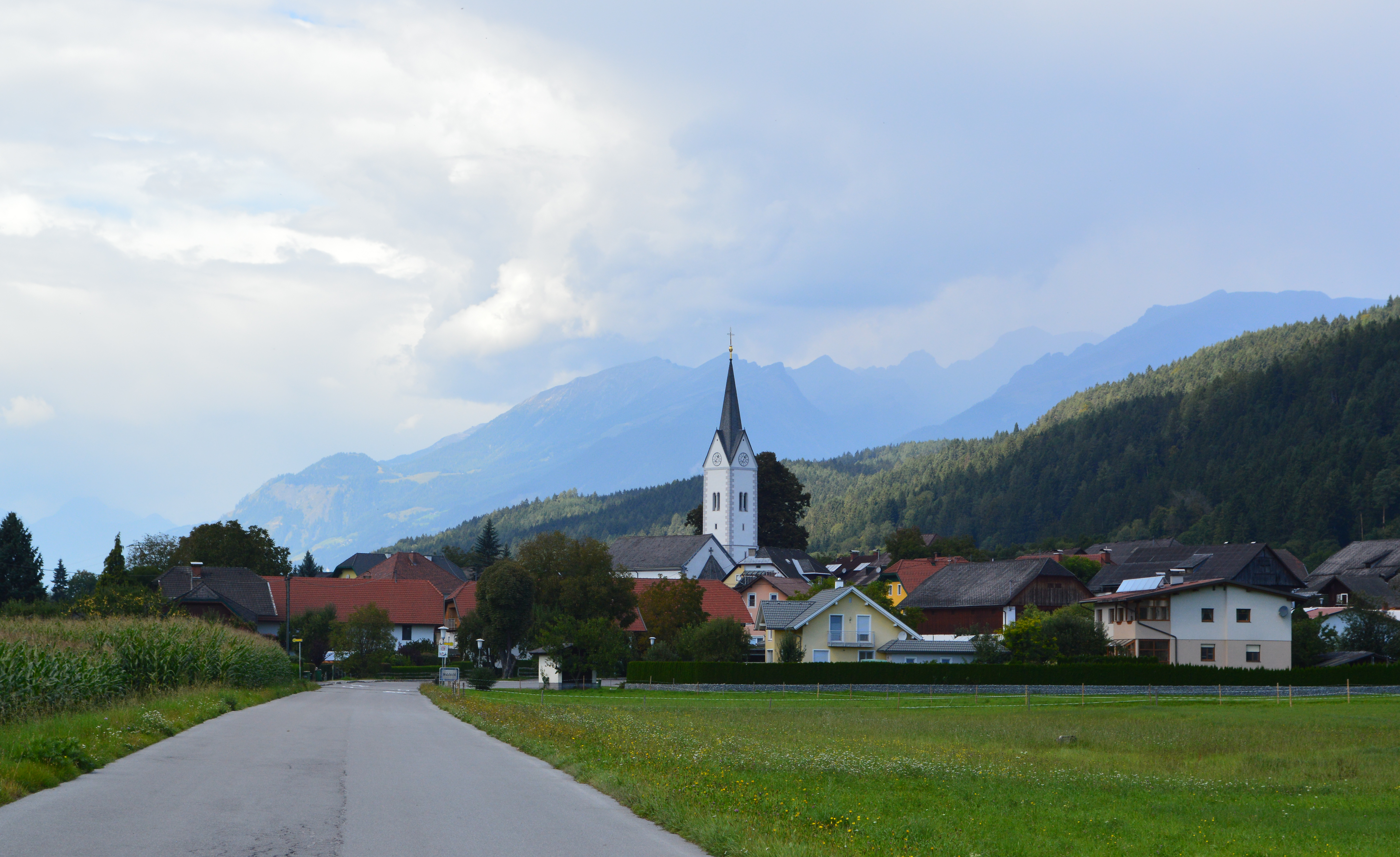 Molzbichl, Carinthia, Austria